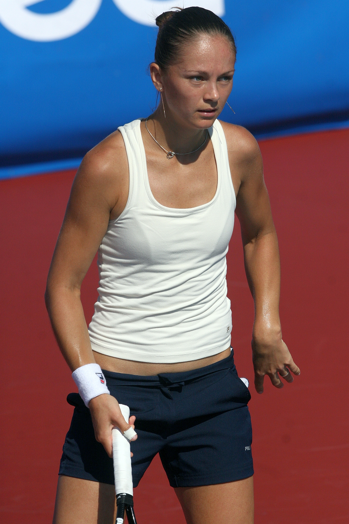 Tatiana Perebiynis - Stockholm 2008